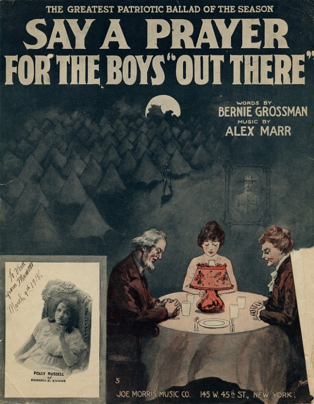 sheet music cover with inset photo of Polly Russell